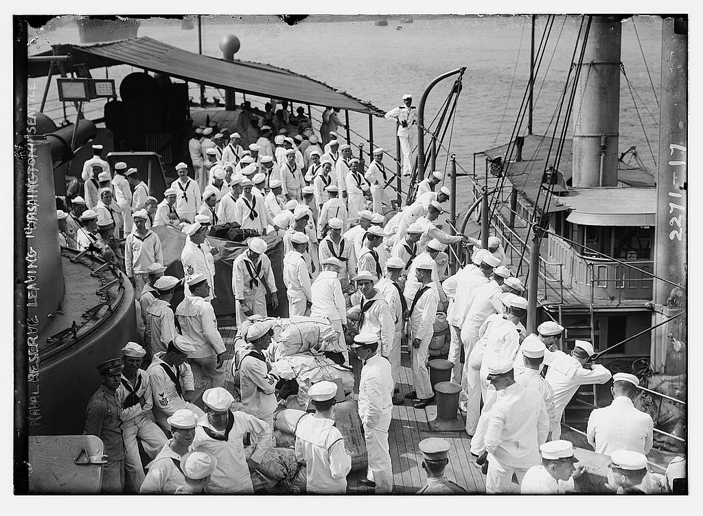 Naval Reserve leaving "Seattle" (LOC)